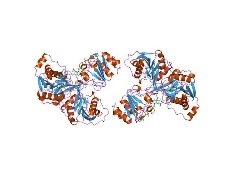 Cartoon representation of the molecular structure of protein registered with 1efp code.